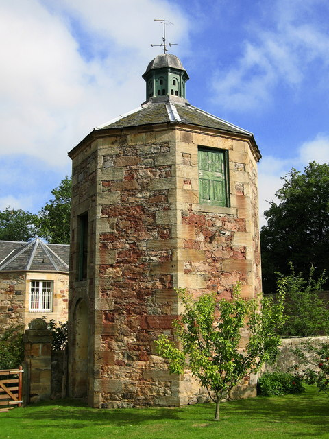 Keith Marischal Doocot. Octagonal three-stage dovecot built in red sandstone rubble in 1801. There is a round-arched doorway to the west with an opening in the 2nd stage above and a further opening in the 3rd stage to the south. There are arched flight holes in the timber cupola for the pigeons to enter. However the wooden nests have been removed and there when I took the picture swallows were resting on the weather vane.